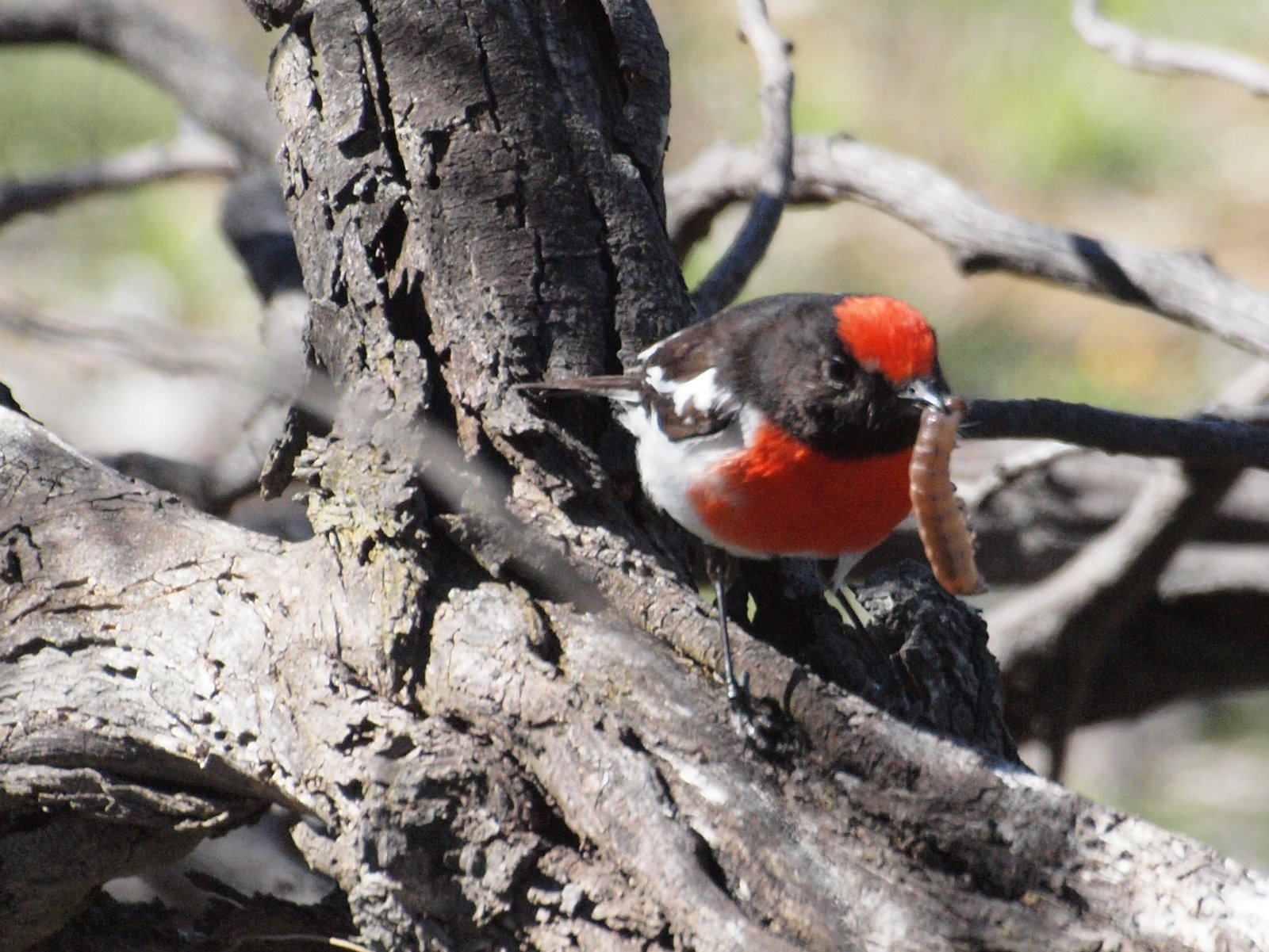 A male Red-capped Robin at Mulligans Flat Nature Reserve, Canberra, Australia. It has a caterpillar in its beak.